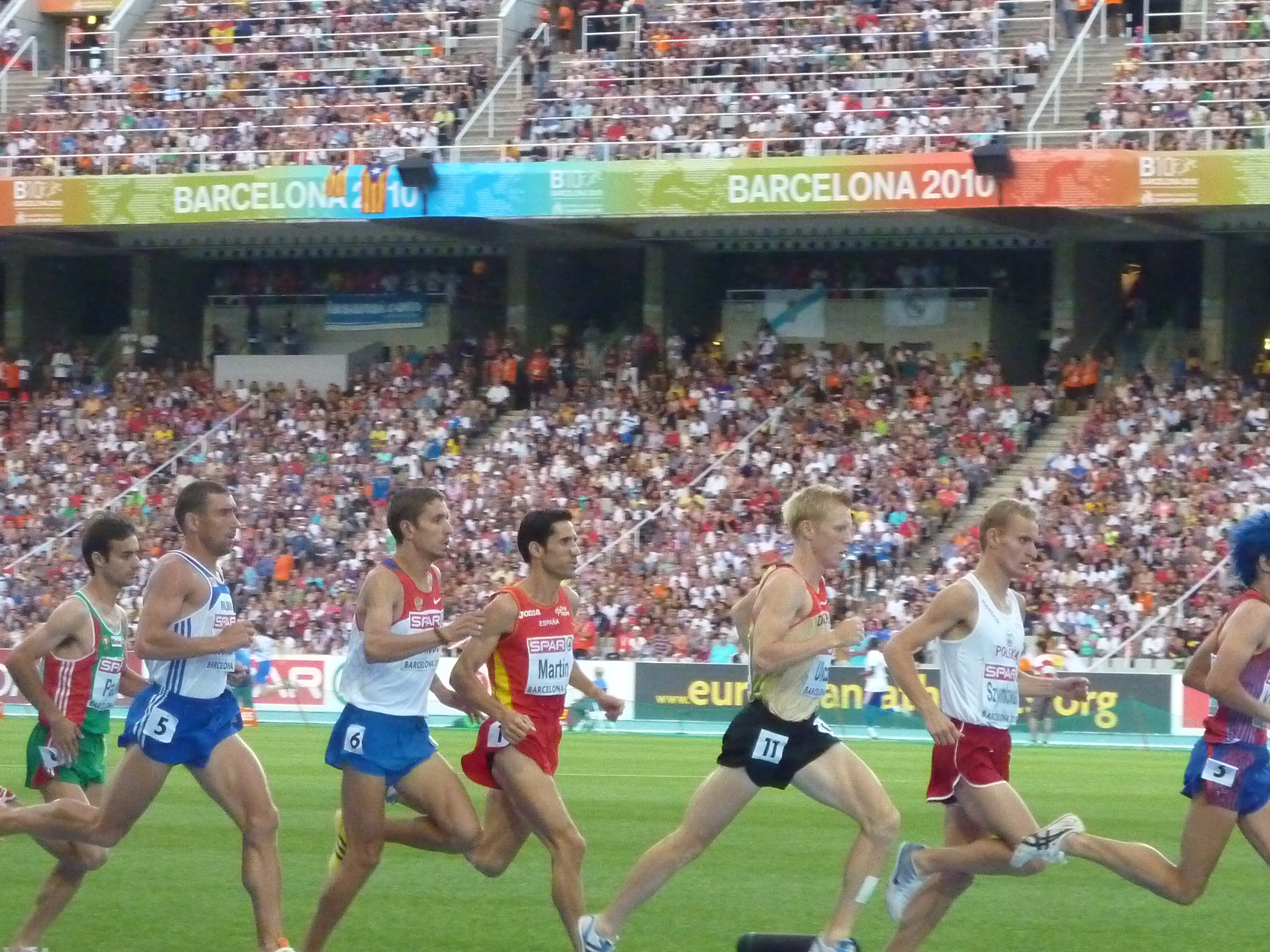 2010 European Championships in Athletics 3000m steeplechase final. Alberto Paulo, Ion Luchianov, Andrey Farnosov, Eliseo Martín, Steffen Uliczka, Tomasz Szymkowiak